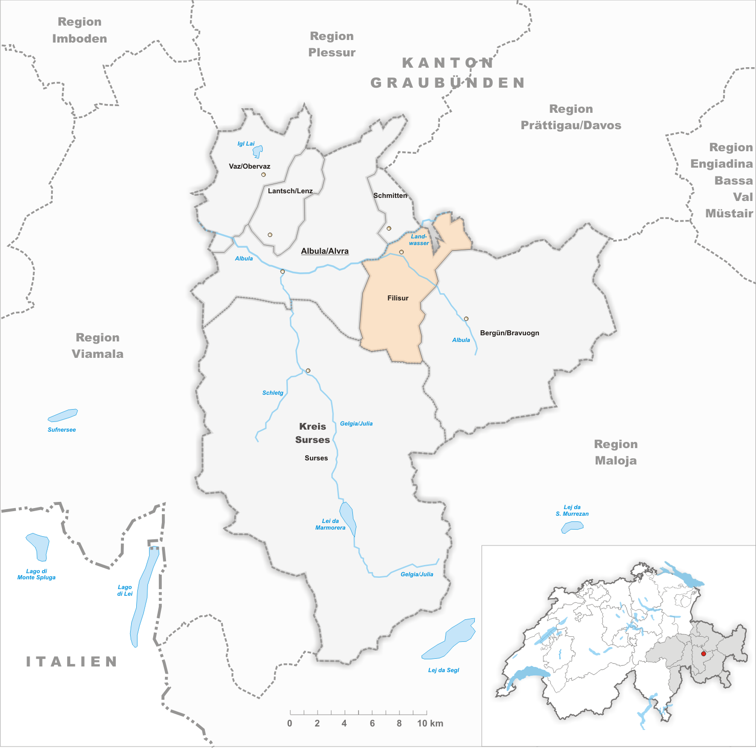 Municipality Filisur